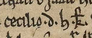 The name of Cecilía Hákonardóttir (died 1248) as it appears on folio 112v of AM 45 fol (Codex Frisianus): "Cecilio dottur Hakonar konvngs".